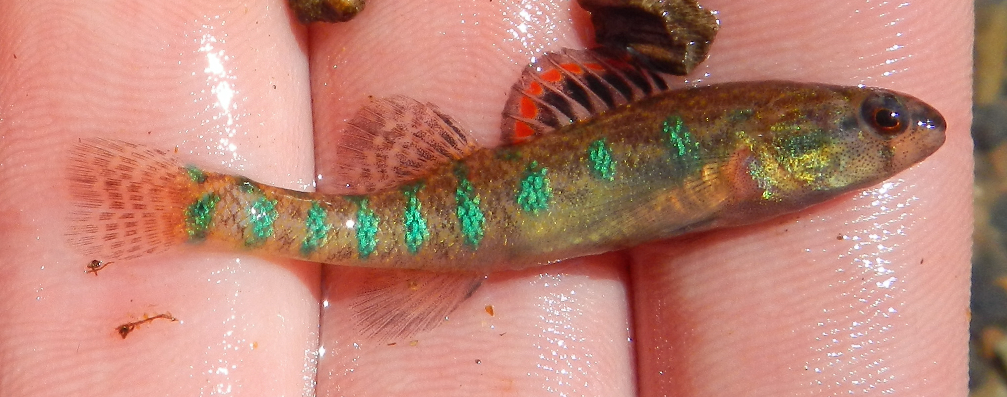 An adult male Etheostoma gracile (slough darter) from a tributary of the Kaskaskia River in Illinois.